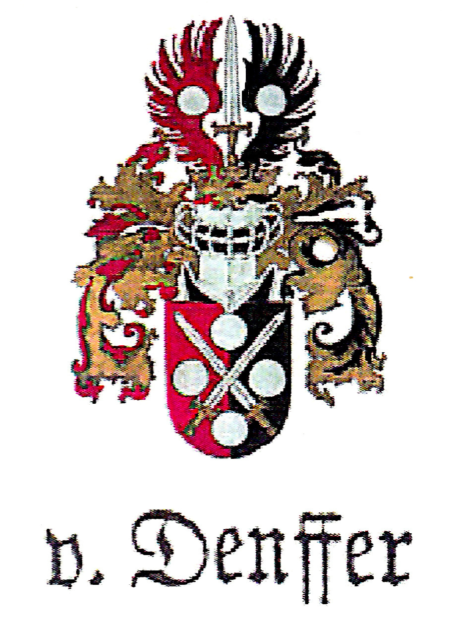 Coat of arms of the german family „von Denffer“